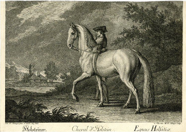 Holsteiner